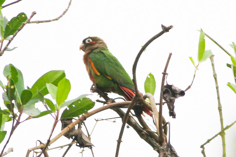 Flame-winged Parakeet (Pyrrhura calliptera)